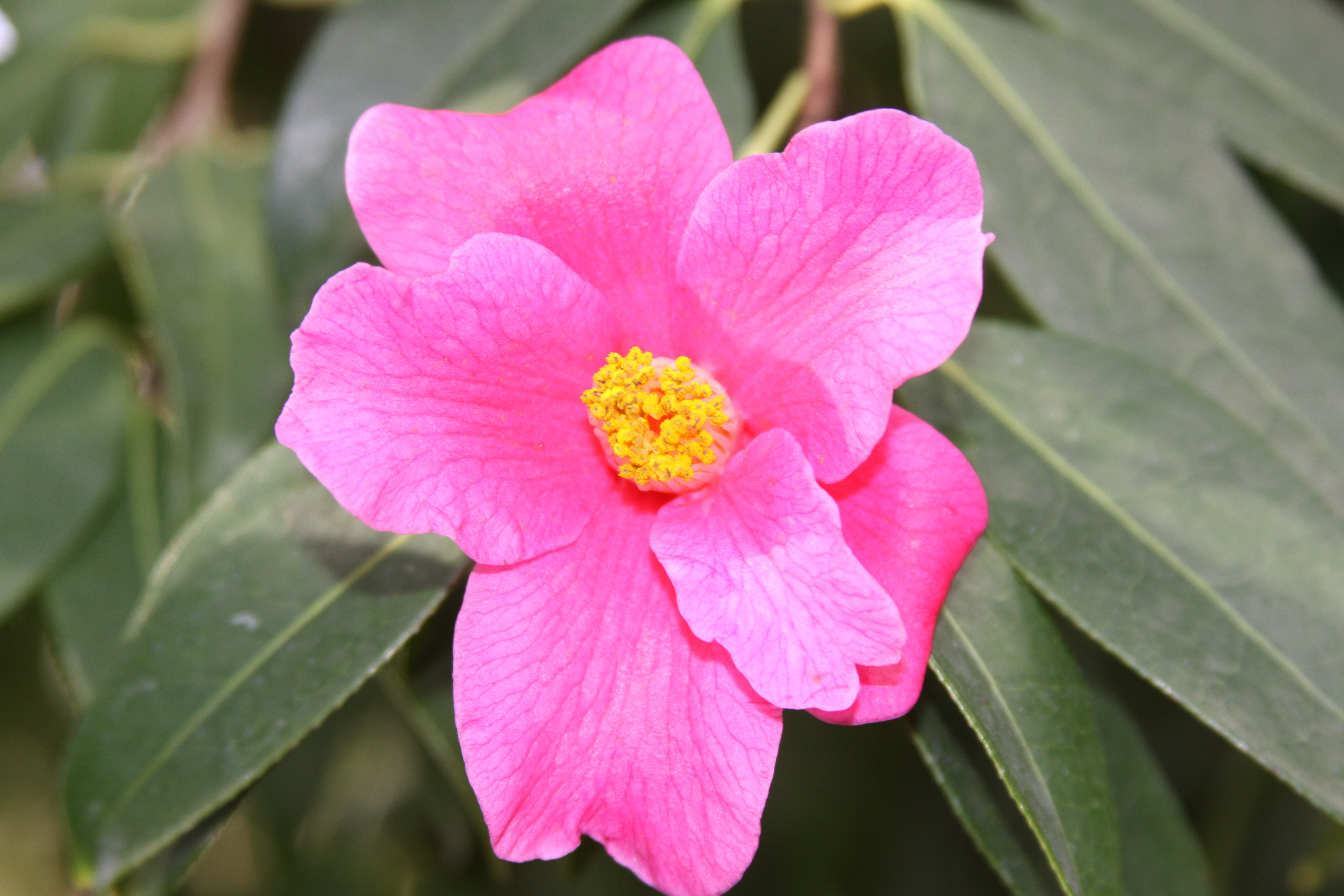 Royal Botanic Garden Kew Temperate House